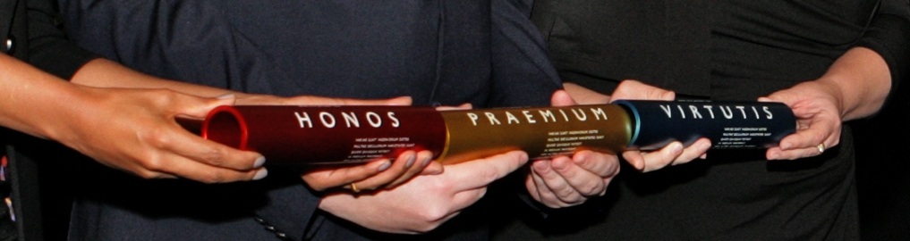 Detail of File:2015_Erasmus_Prize_-_25_November_2015_-_Stichting_Praemium_Erasmianum_(82).JPG showing the Erasmus prize with the text Honos praemium virtutis